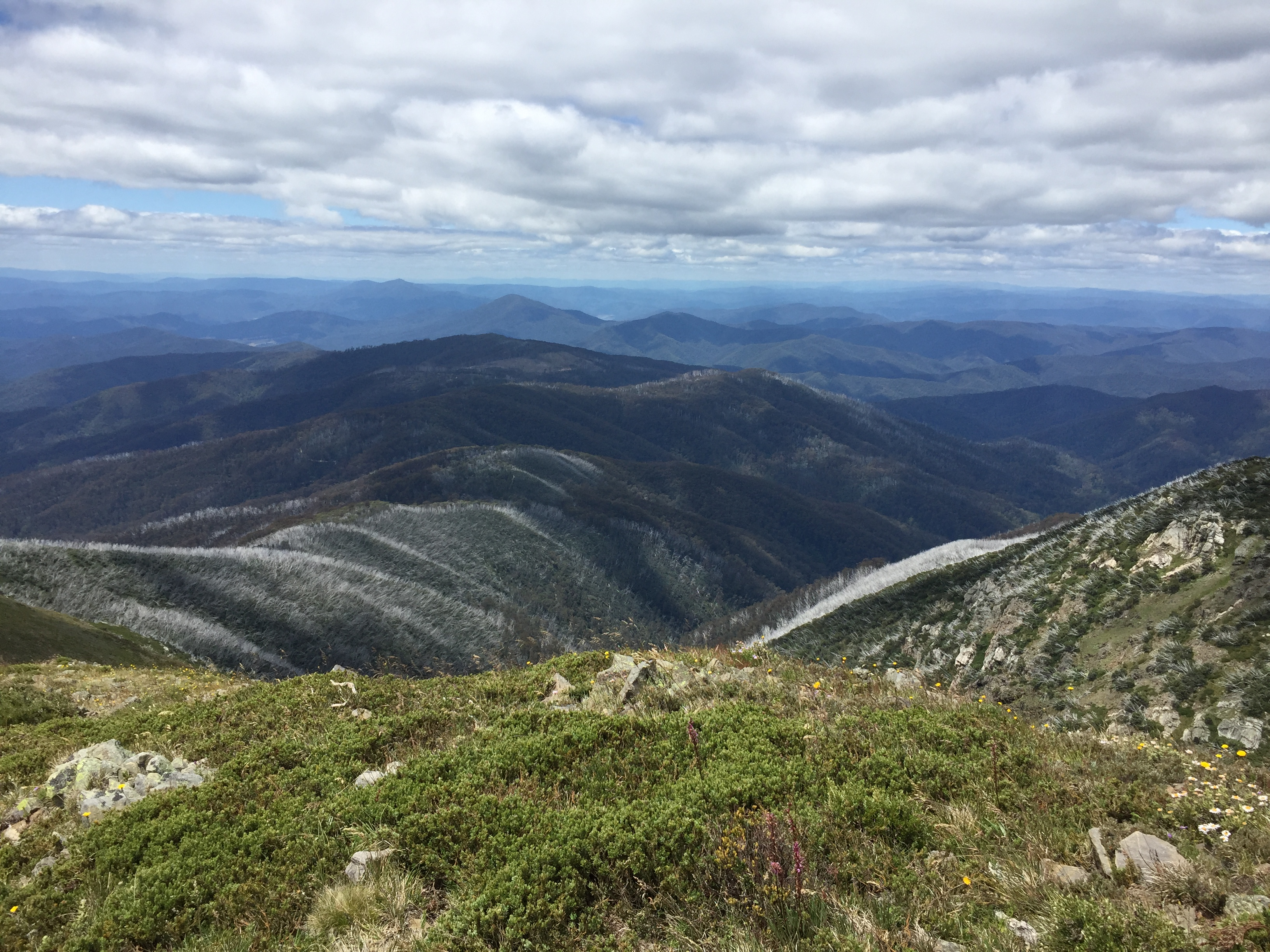 View of the Victorian Alps taken looking down from the top of Mt Bogong